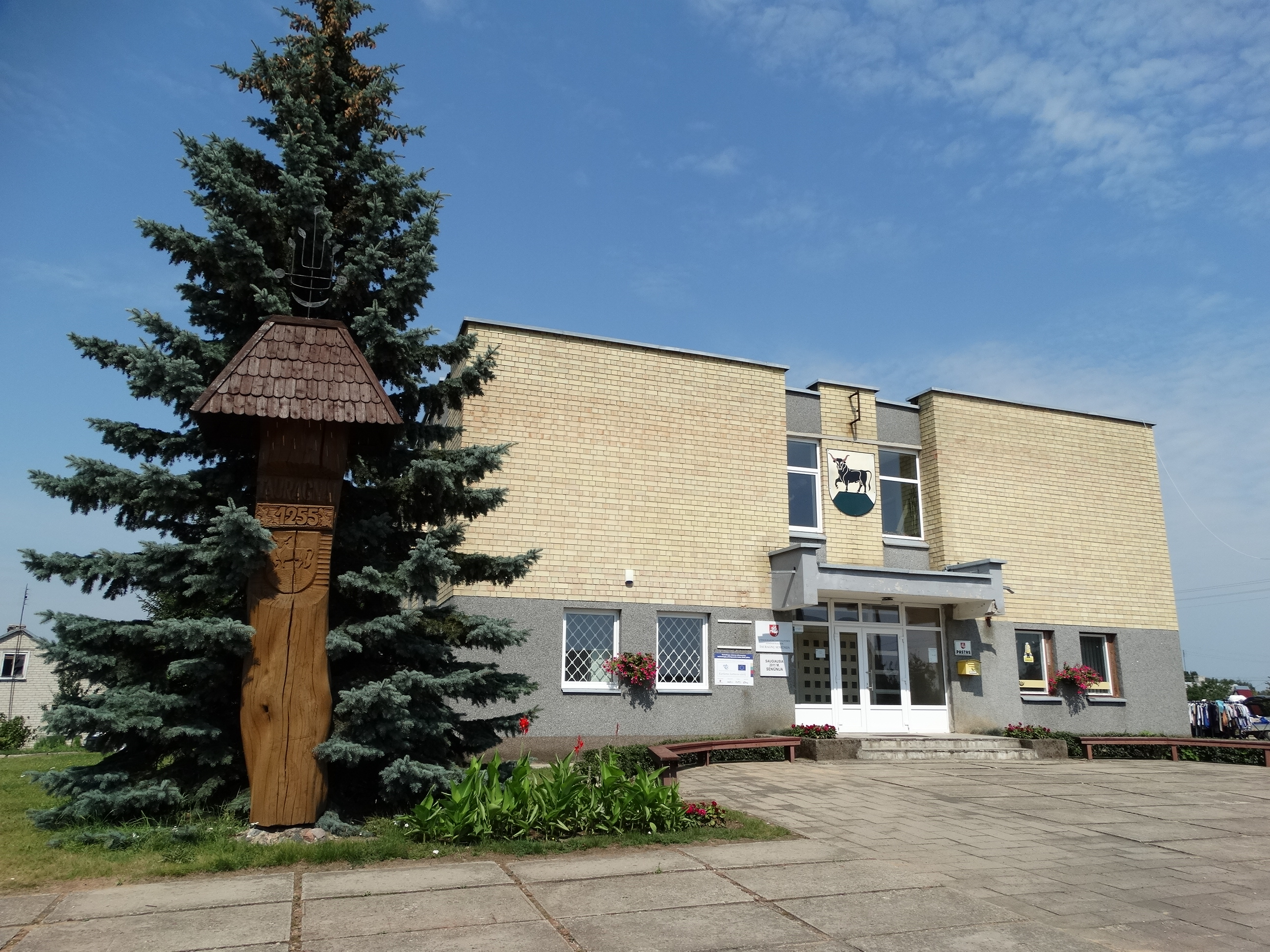 Eldership in Tauragnai, Utena District, Lithuania